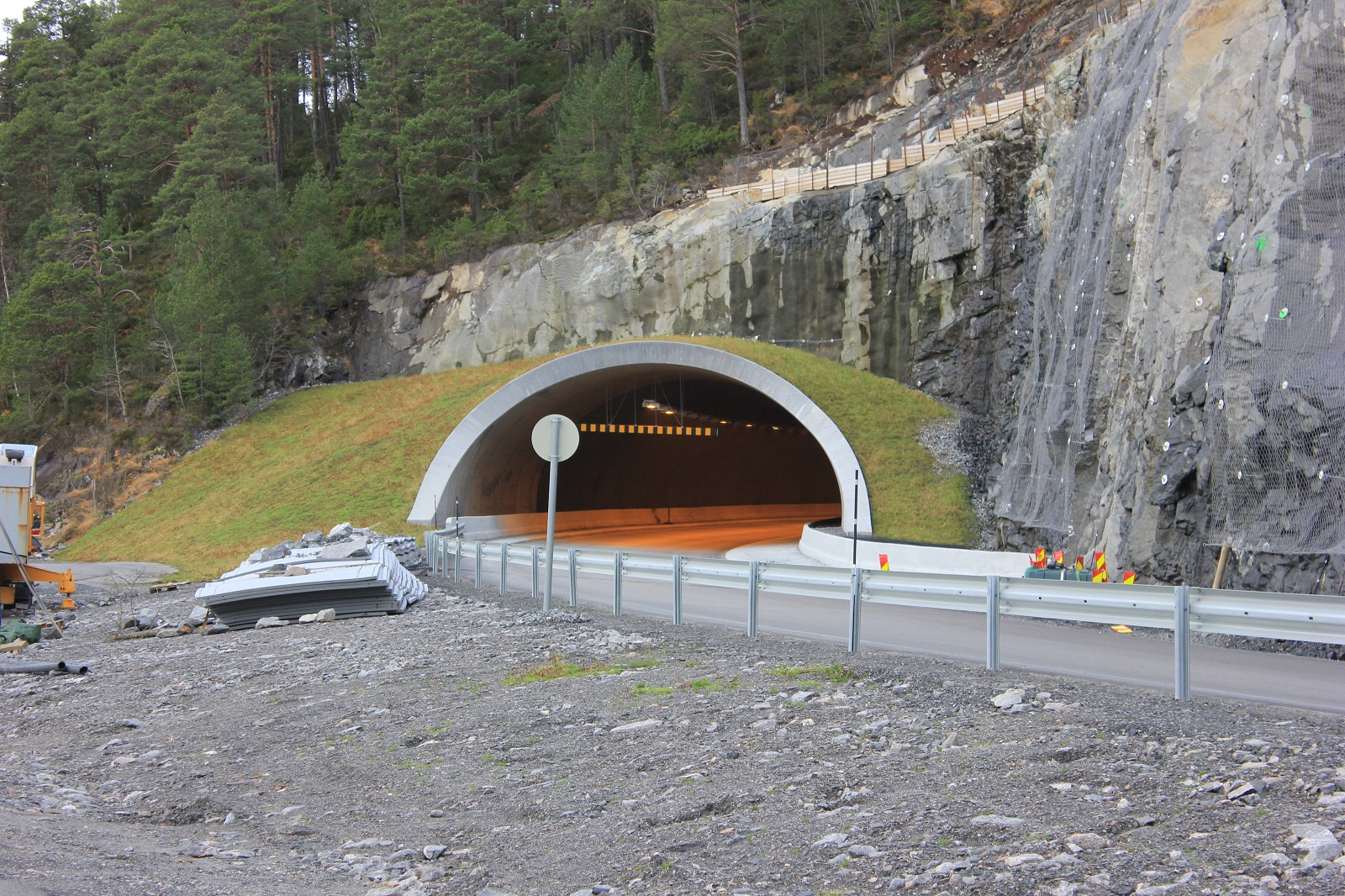 New part of Kvivsvegen. Årsettunnelen